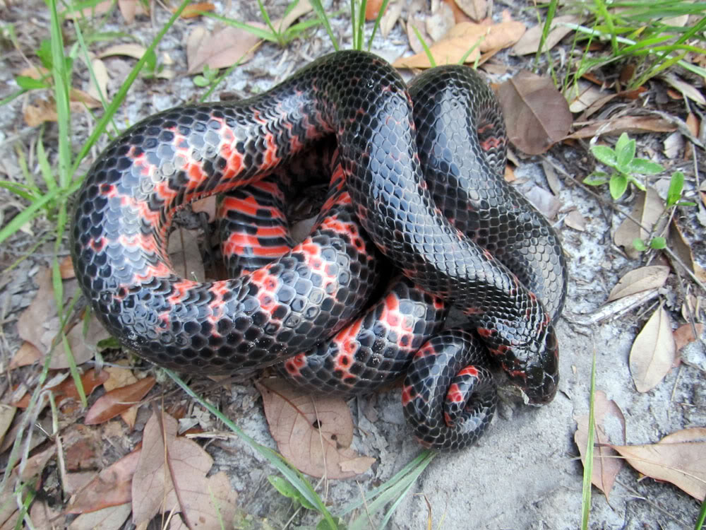 Eastern Mud Snake, Pasco County Florida